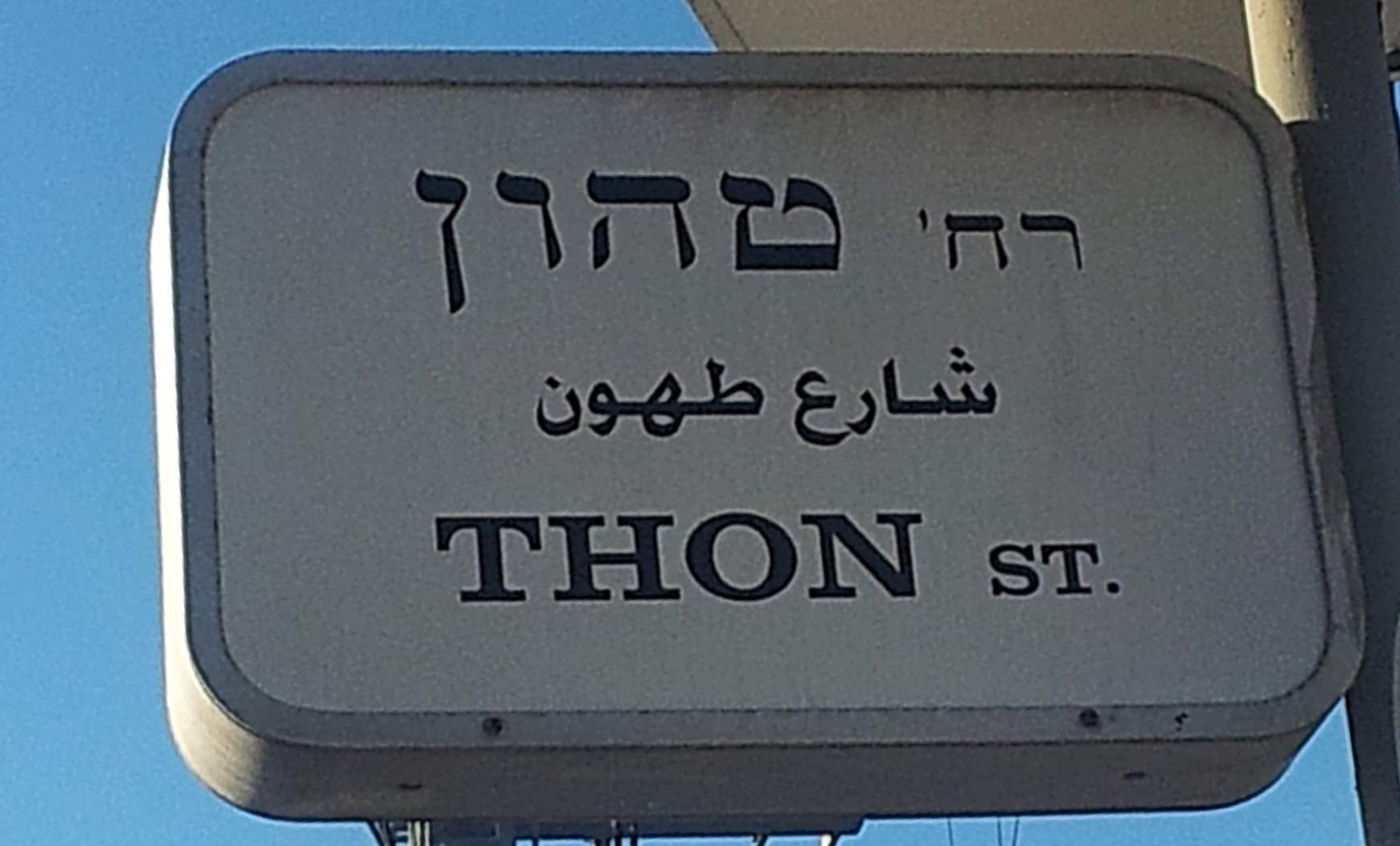 Thon street sign, Jerusalem, Israel